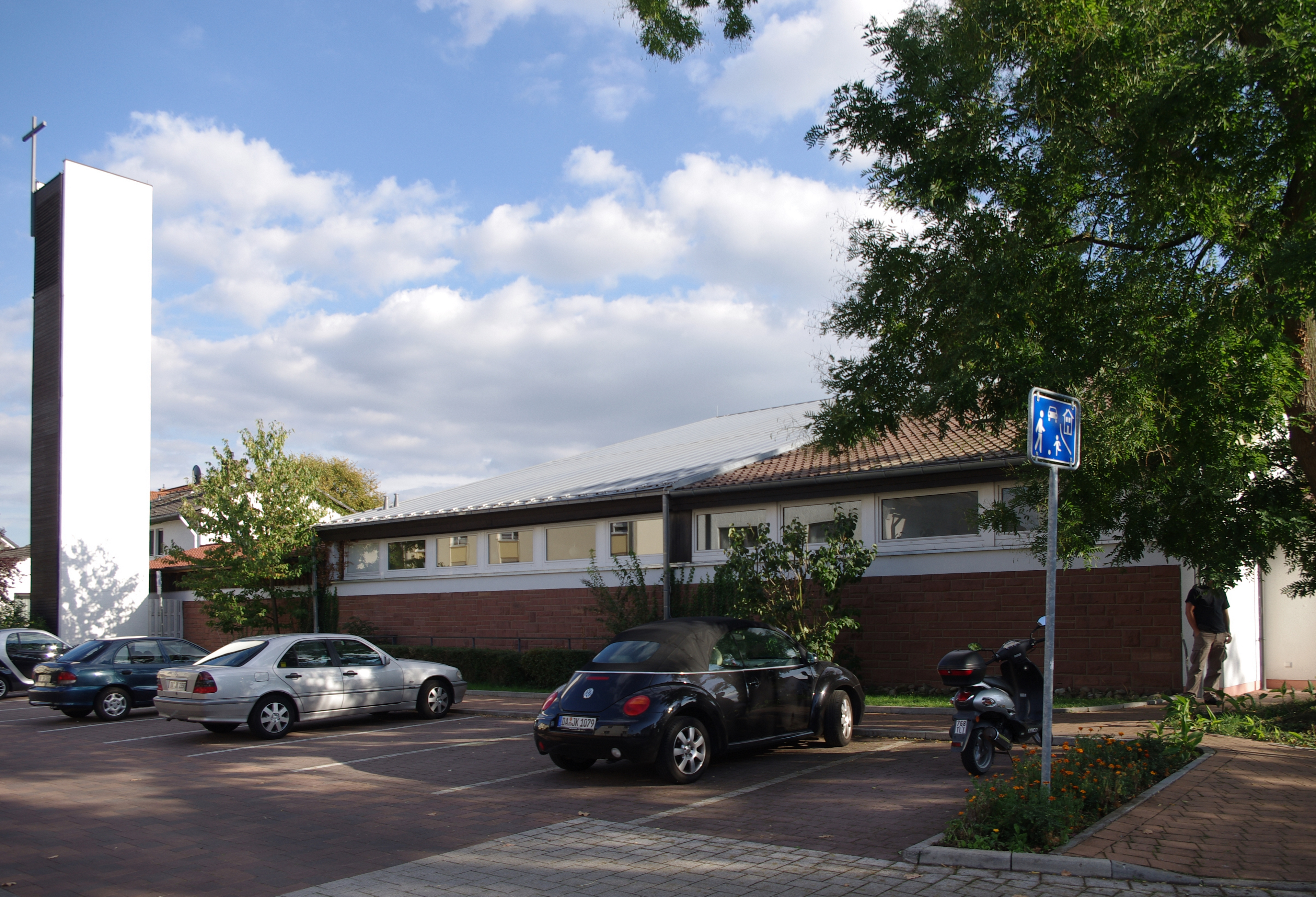 St. Martin Lutheran Church